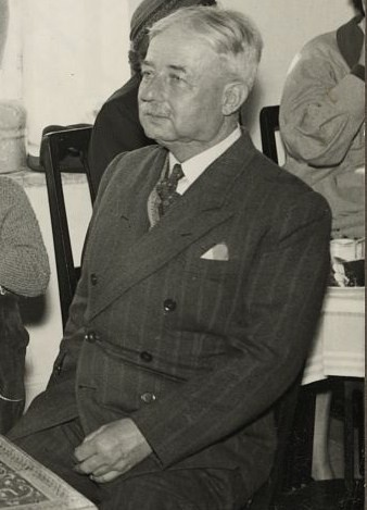 Mrs. Glubb, Lady Glubb and Glubb Pasha, seated with children, at American Colony bazaar, probably in Jerusalem